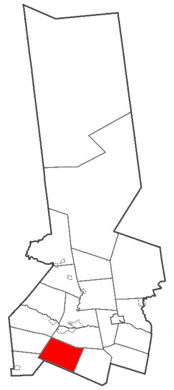 Map of Herkimer County highlighting Columbia